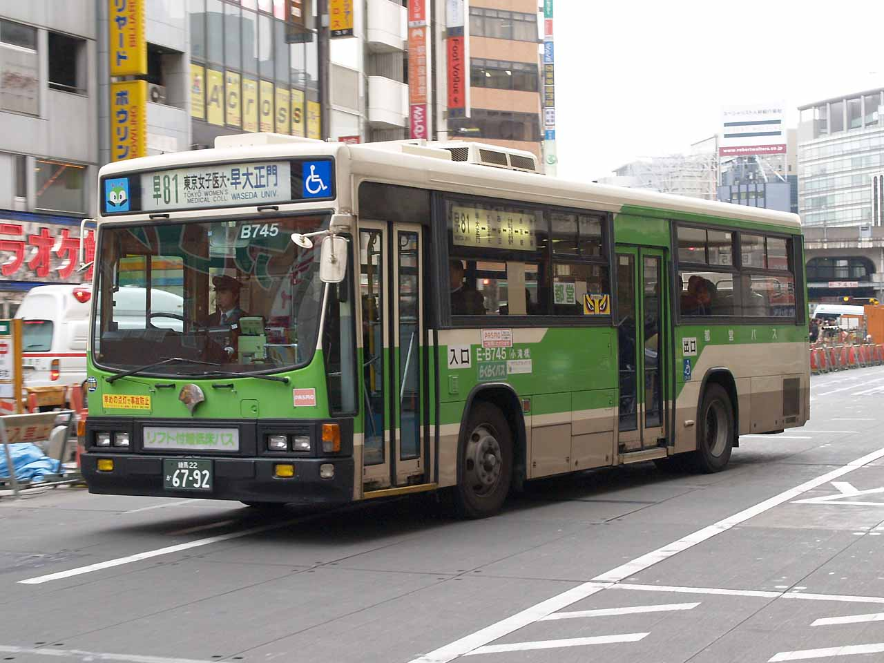 Toei Bus "Haya 81" route, depart from Shibuya Station East Busstop. Model:Isuzu Cubic KC-LV880L (Low-floor with wheelchair lift) License plate: TKN22 KA6792 （練馬22か6792） Place: Neighbour of Shibuya station: Shibuya ward, Tokyo, Japan